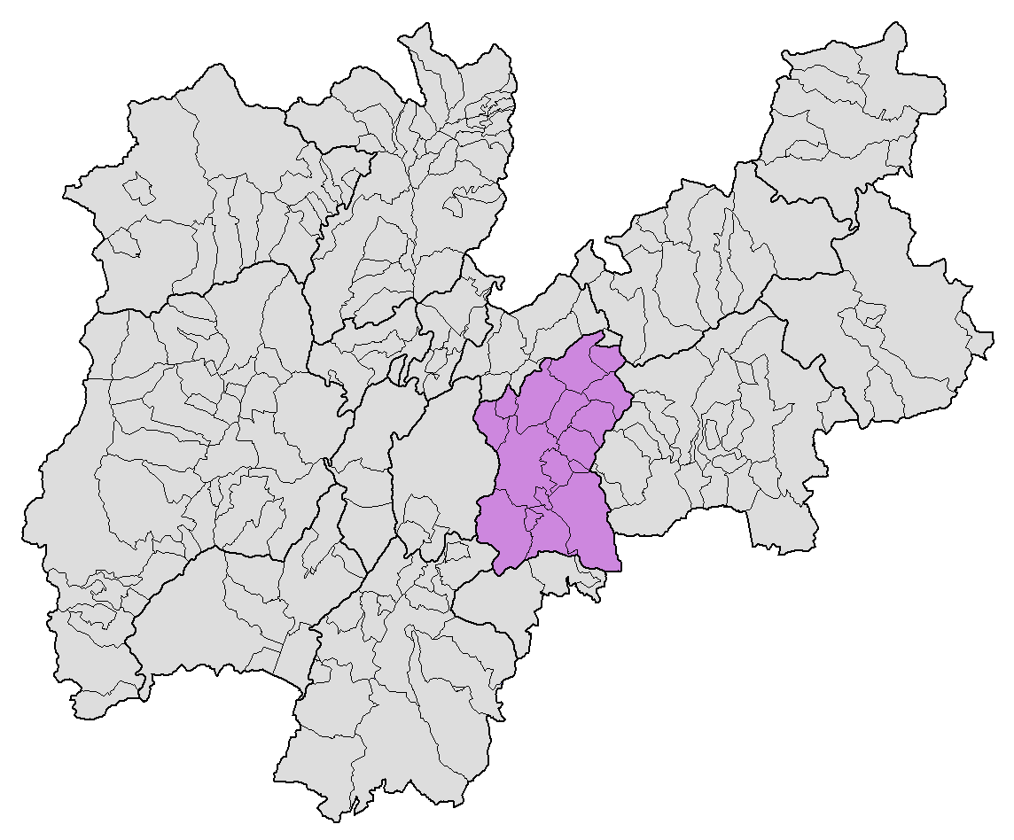 Location map of "Comunità Alta Valsugana e Bersntol" (4)